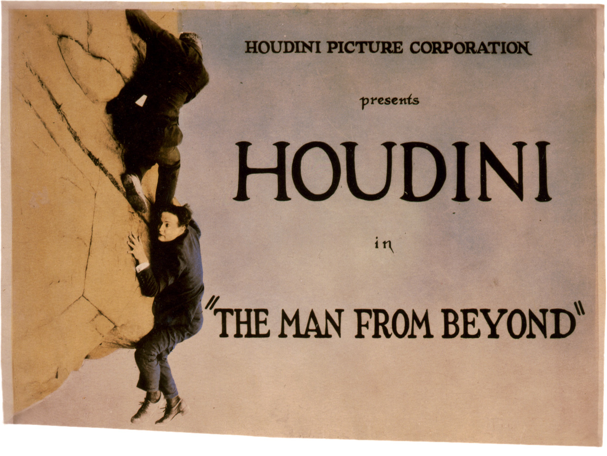 Houdini Picture Corporation presents Houdini in The Man From Beyond. Escapologist-turned-actor Harry Houdini and unidentified man in cliffhanging scene. Fragment of a movie poster, 1921.